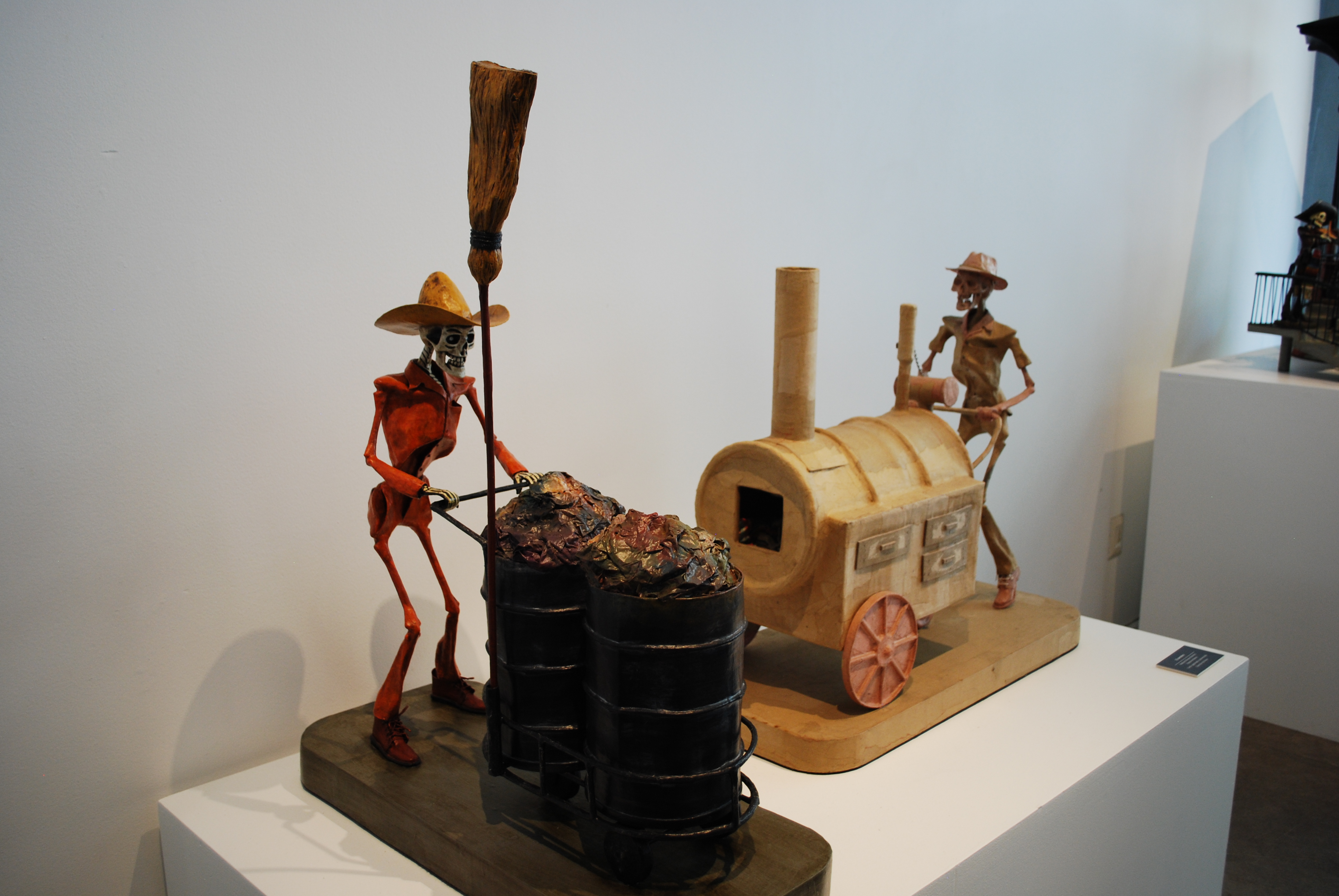 paper sculptures depicting a street sweeper and a street vendor selling "camotes" (a kind of sweet potato/yam) by Adalberto Alvarez Marinez on display at the Museo de Arte Popular in Mexico City